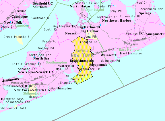 U.S. Census 2000 reference map for Bridgehampton